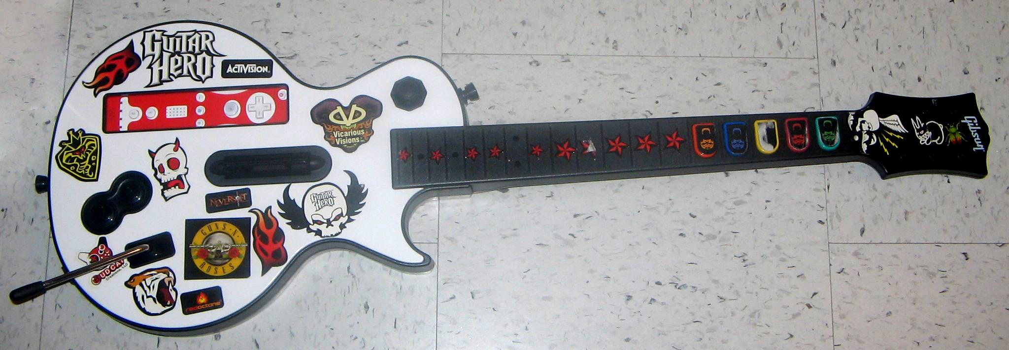 Cropped from Image:Guitar Hero 3 guitar for the Wii.jpg